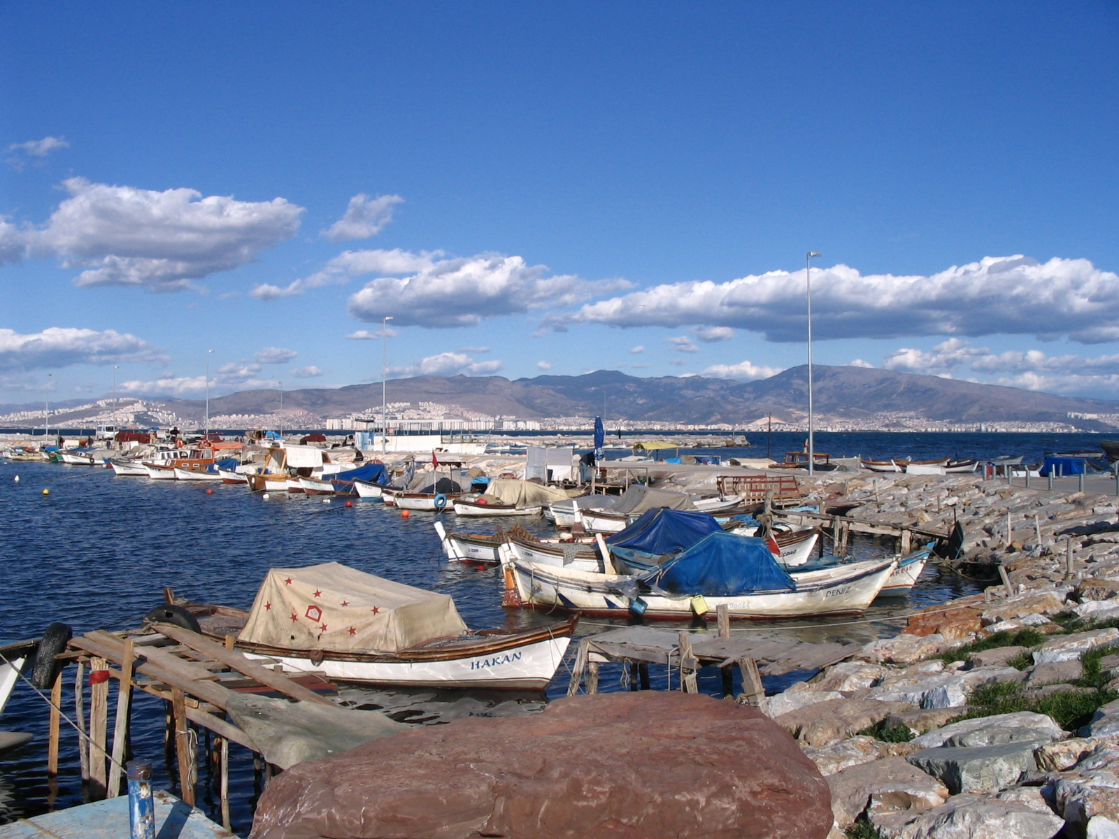 A view of İzmir Bay from İnciraltı